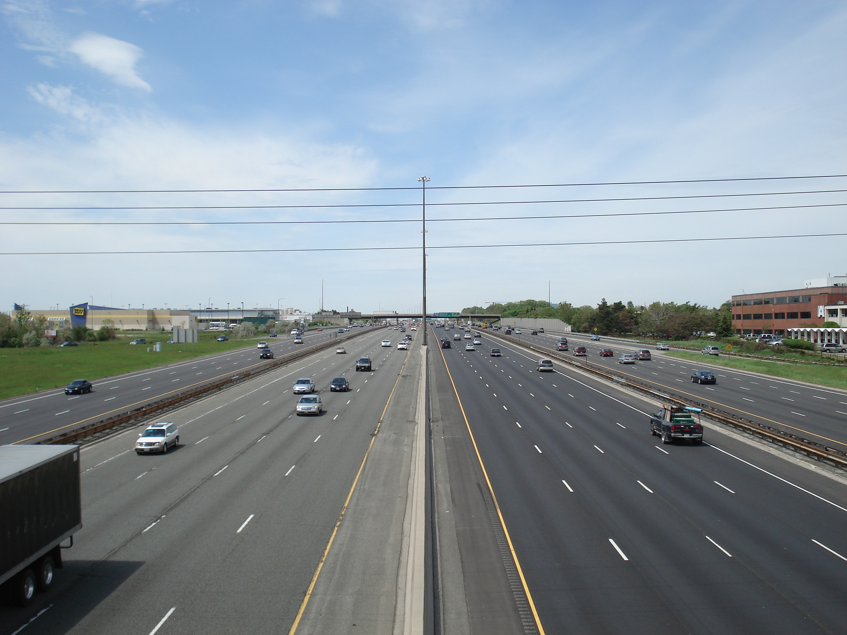 Highway 401 Looking West on the McCowan Overpass